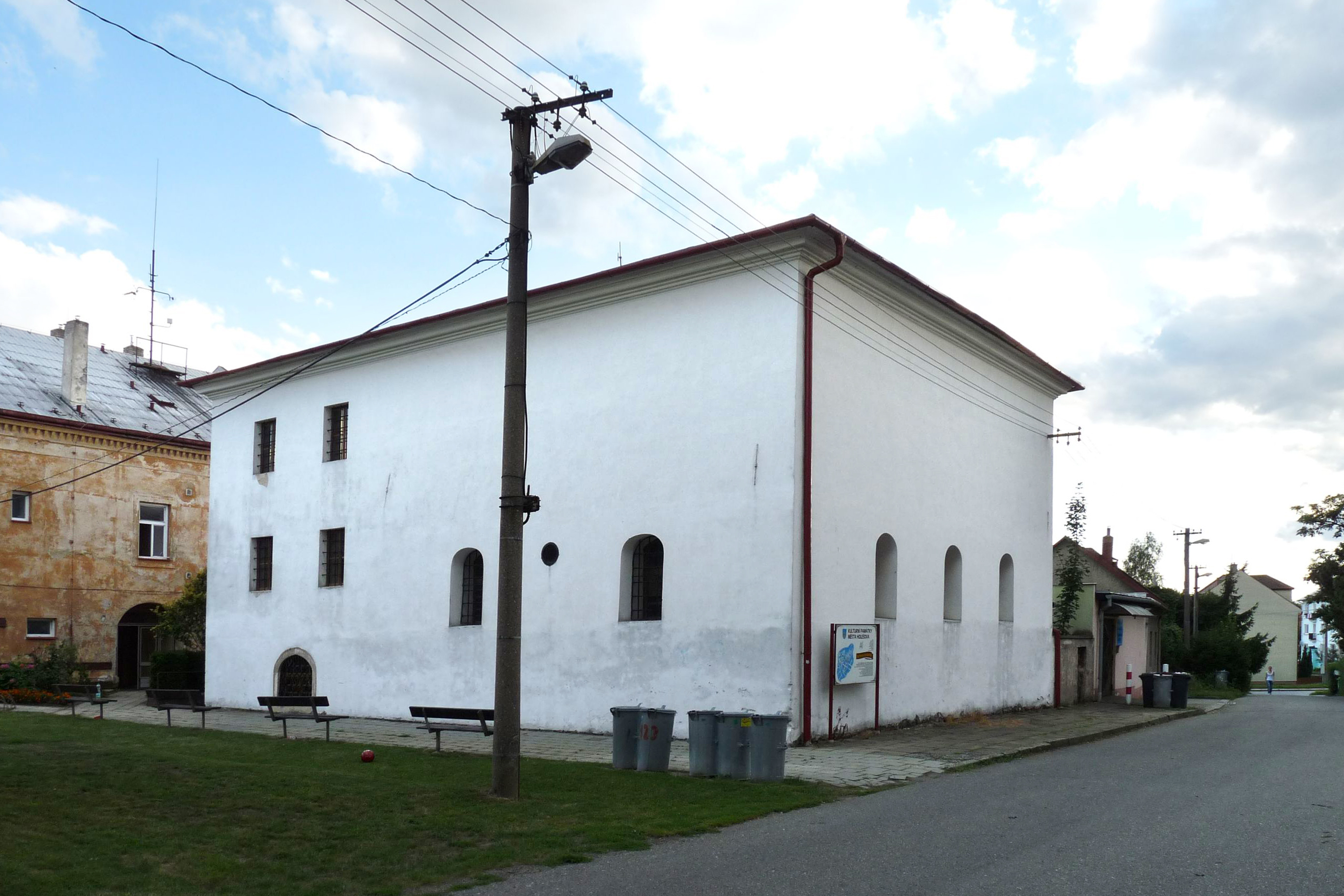 Shah Synagogue in the town of Holešov, Kroměříž District, Zlín Region, Czech Republic.